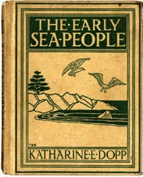 Book cover of "The early sea people" by Katharine Elizabeth Dopp, published 1912 in Chicago